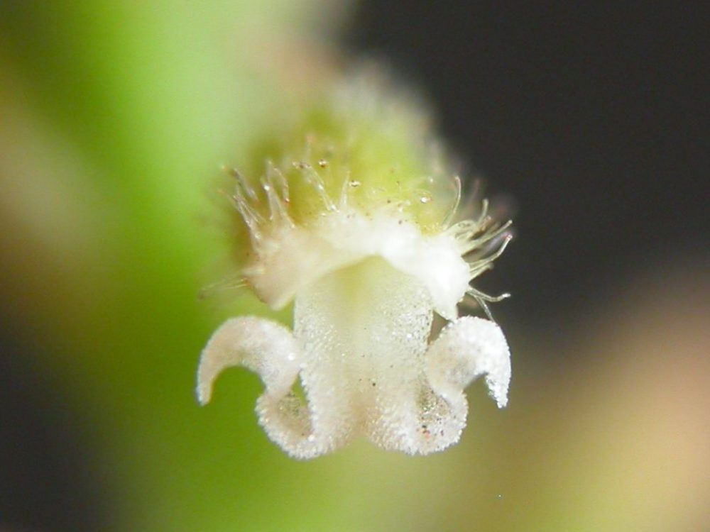 Microchilus arietinus